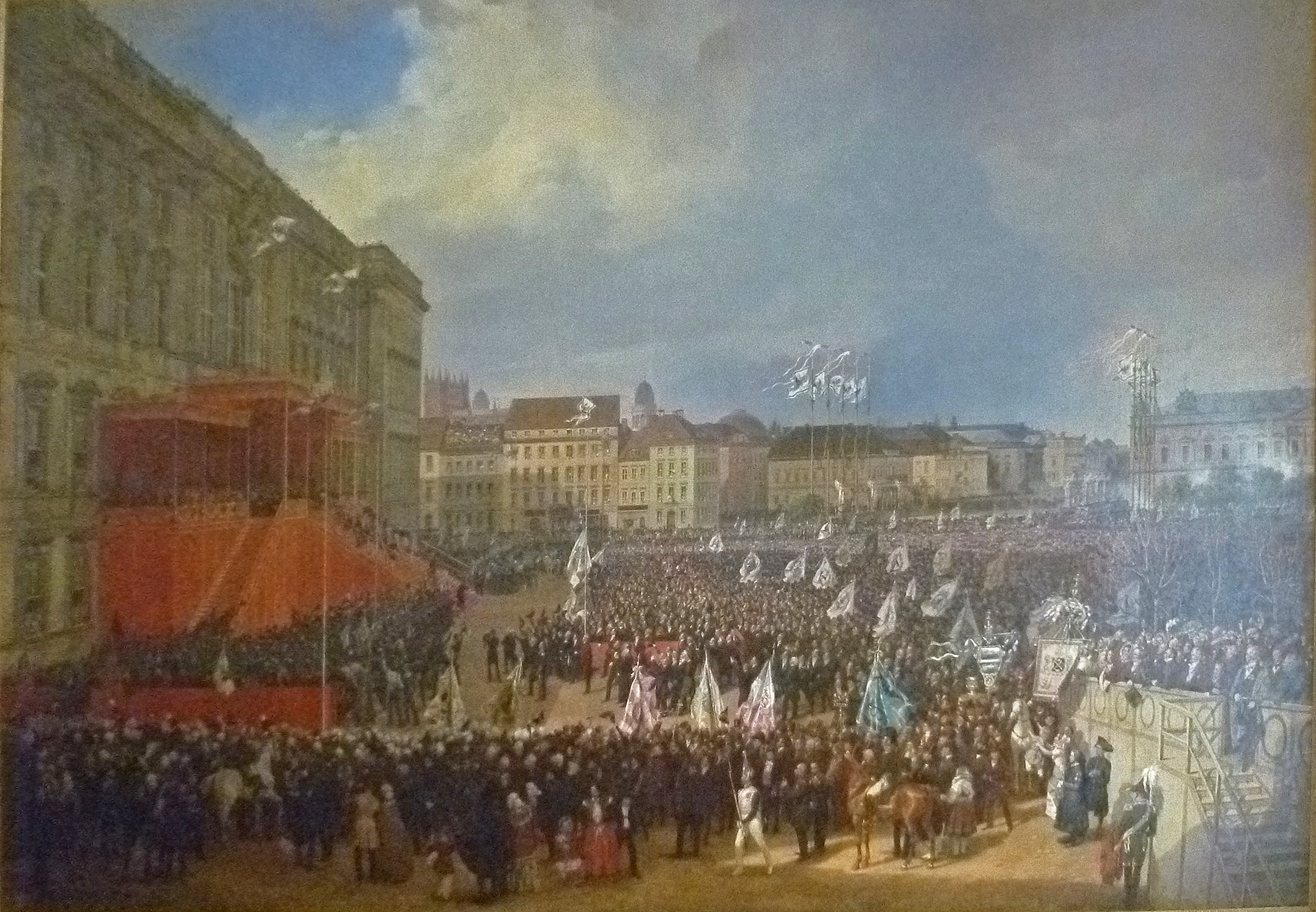 Hommage to Friedrich Wilhelm IV in front of the Berlin City Palace; by Franz Krüger (1840); Charlottenburg Palace, Berlin, Germany